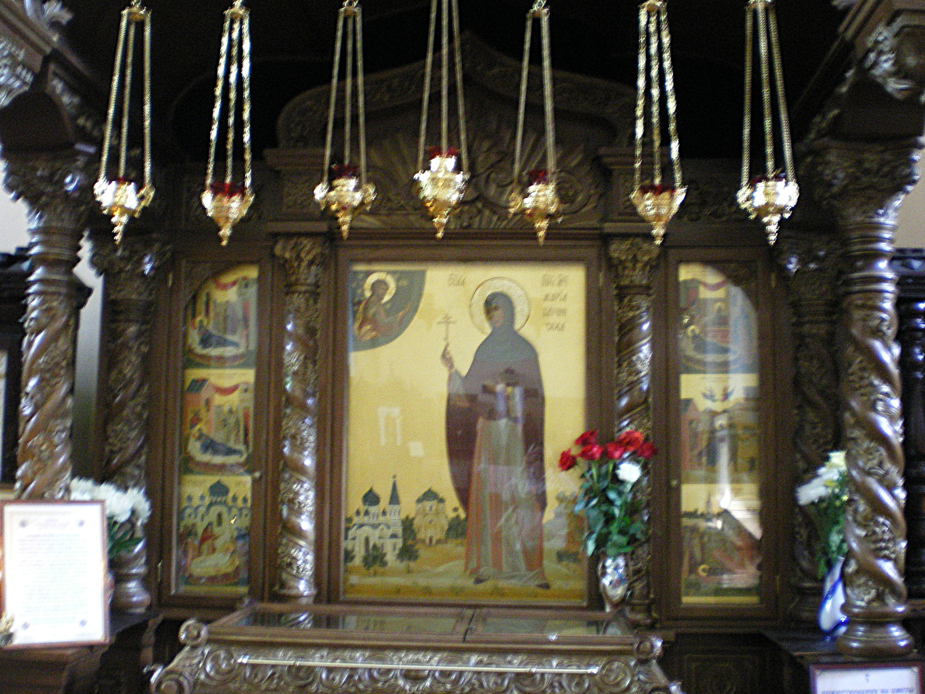 Maria Gatchinskaya icon and relics shrine at St. Paul Cathedral in Gatchina